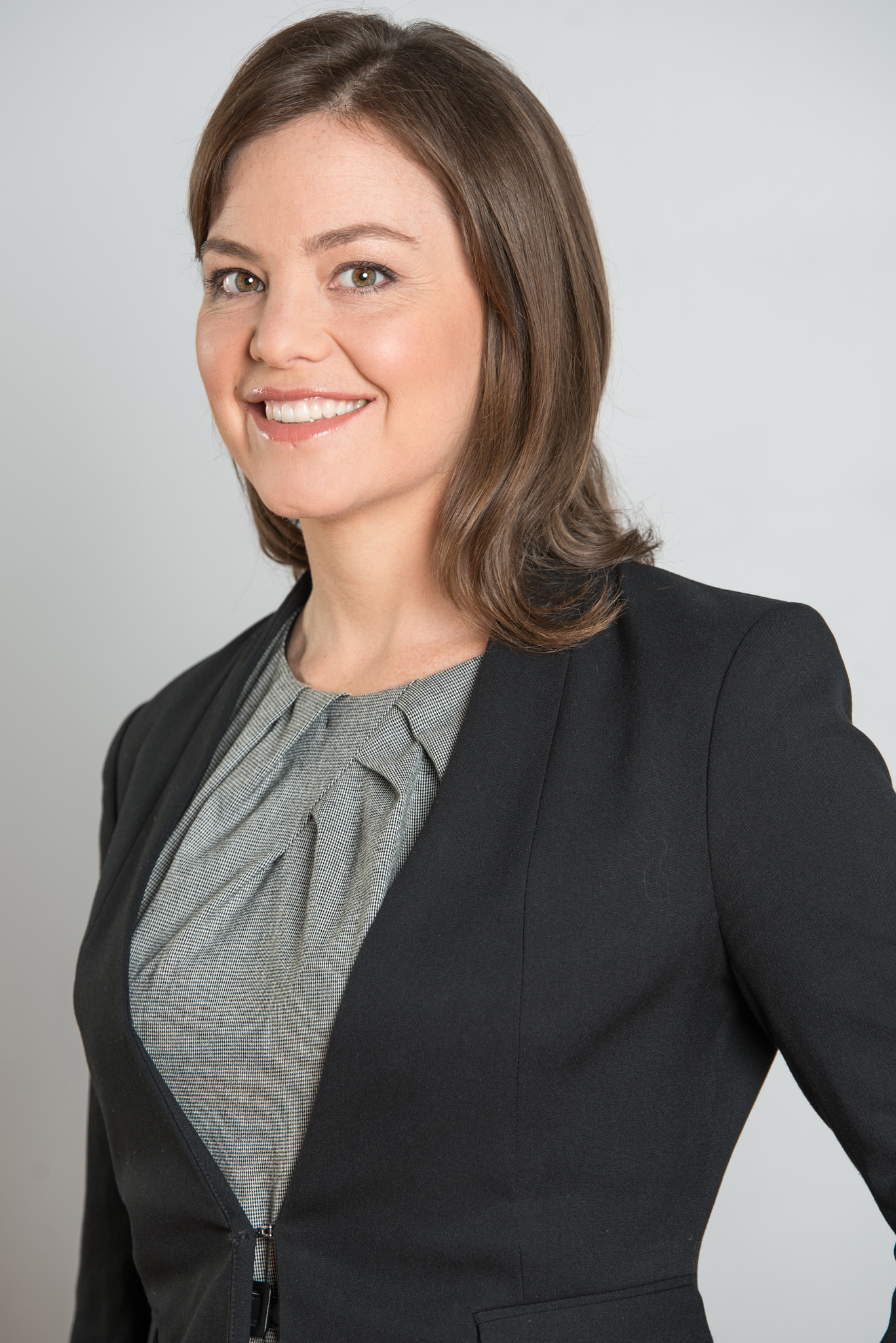 Julie Anne Genter, a member of the New Zealand House of Representatives representing the Green Party of Aotearoa New Zealand.